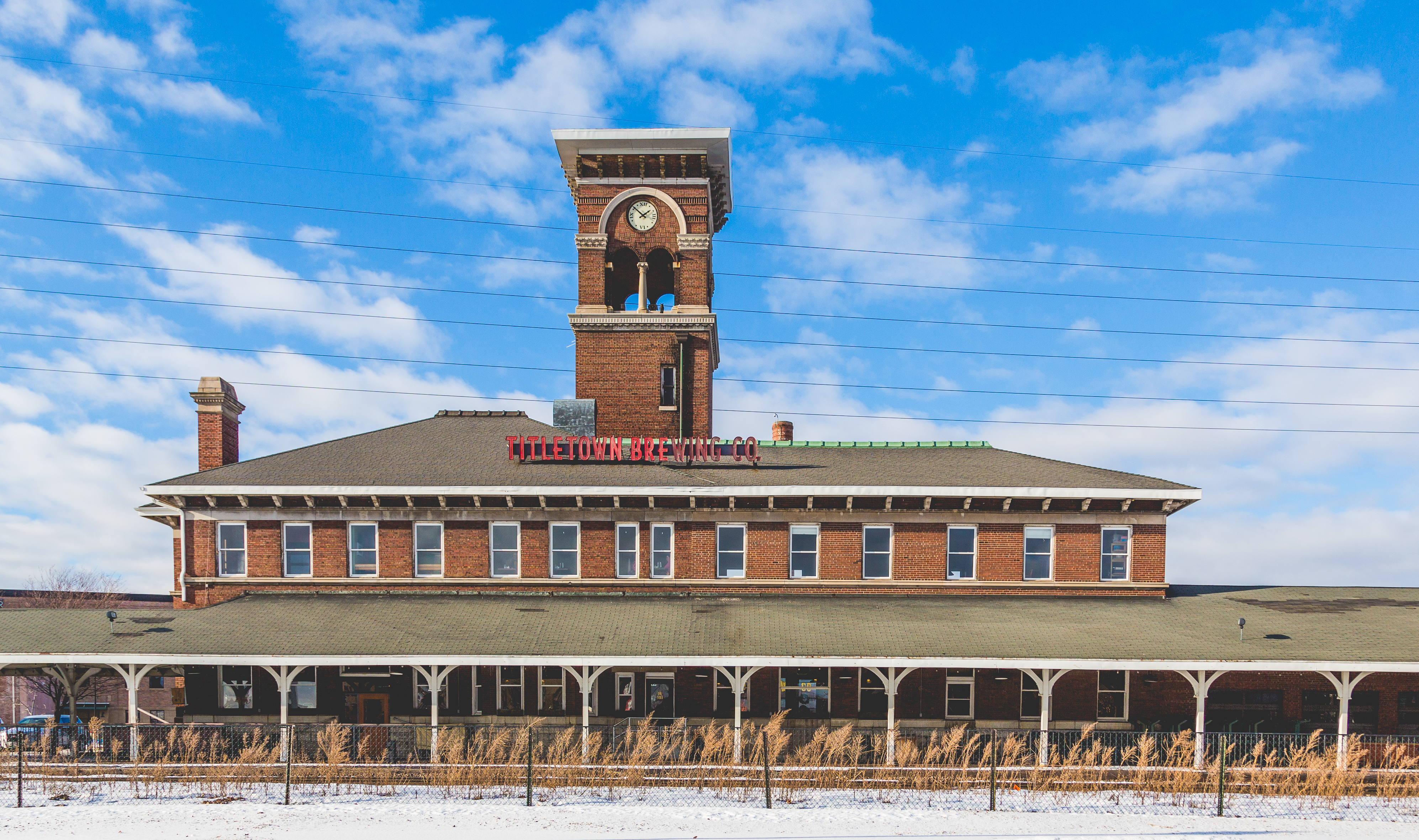 Titletown Brewery - old train station, Green Bay, Wisconsin